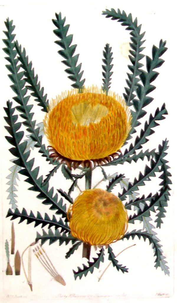 This is an engraving of Banksia formosa (Showy Dryandra), formerly Dryandra formosa. It is Plate 53 of Robert Sweet's 1828 book Flora Australasica.